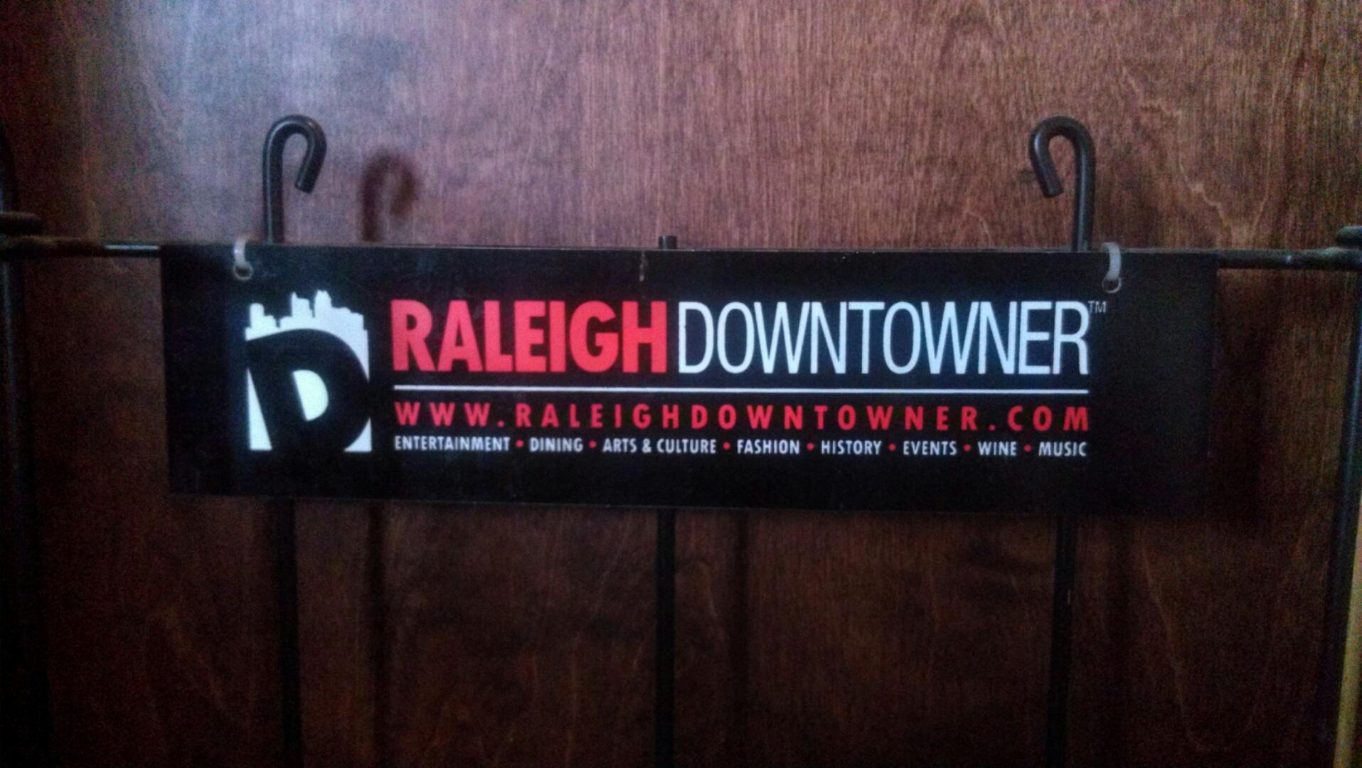 The Raleigh Downtowner Magazine Rack